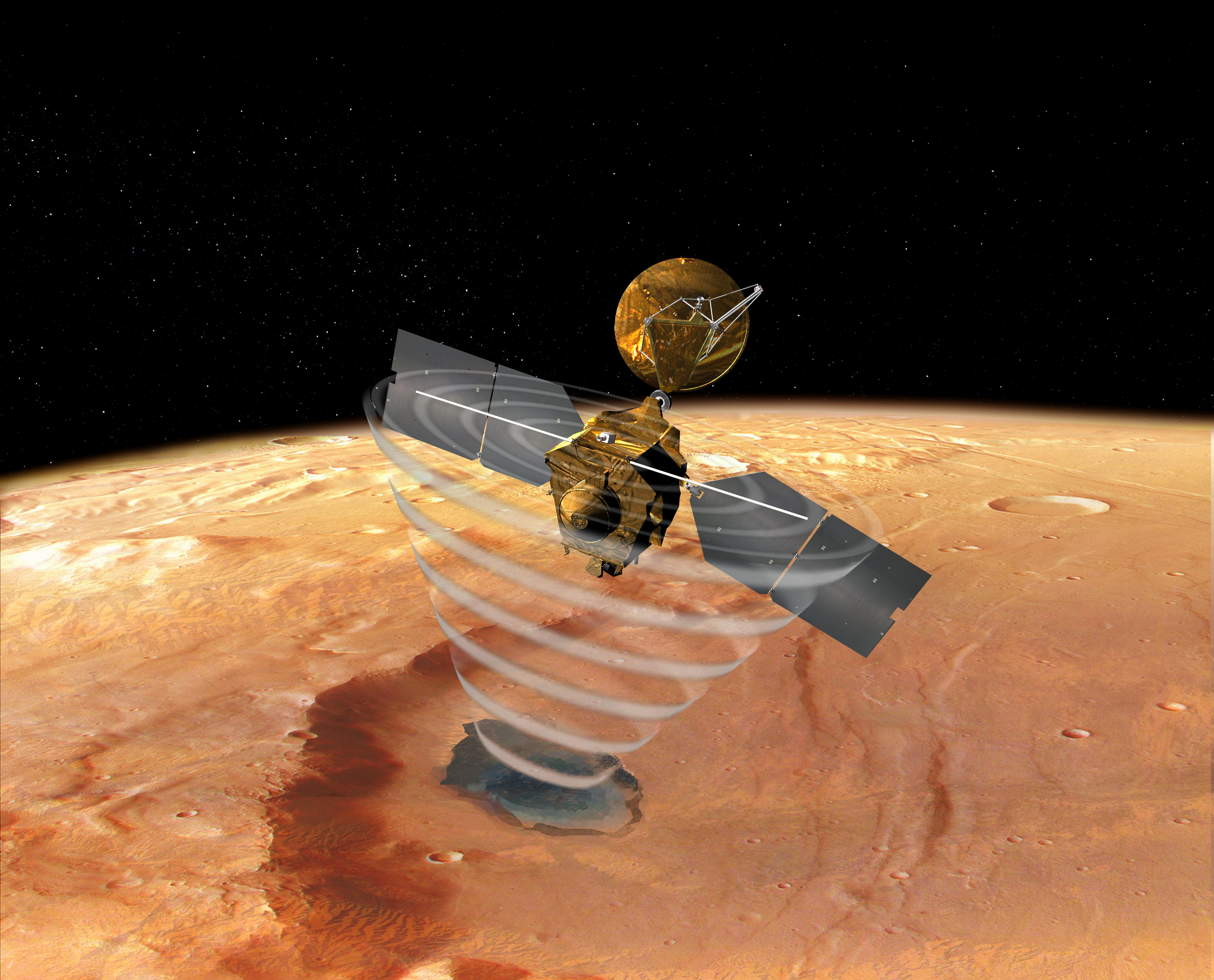 This image is an artist's concept of a view looking down on NASA's Mars Reconnaissance Orbiter. The spacecraft is pictured using its Shallow Subsurface Radar instrument (SHARAD) to "look" under the surface of Mars. The radar instrument will seek liquid or frozen water within the first few hundred feet (up to a kilometer) under the martian surface.